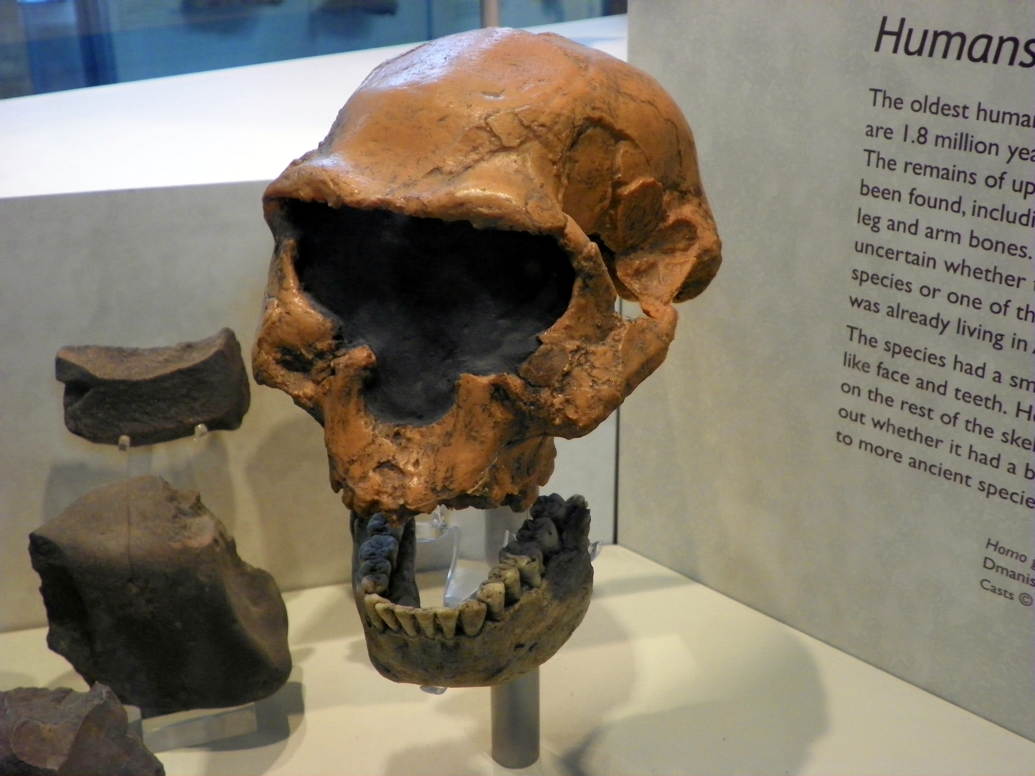 Homo georgicus? skull and jawbone cast, from Dmanisi, Georgia. Natural History Museum, London, 27 August 2012.